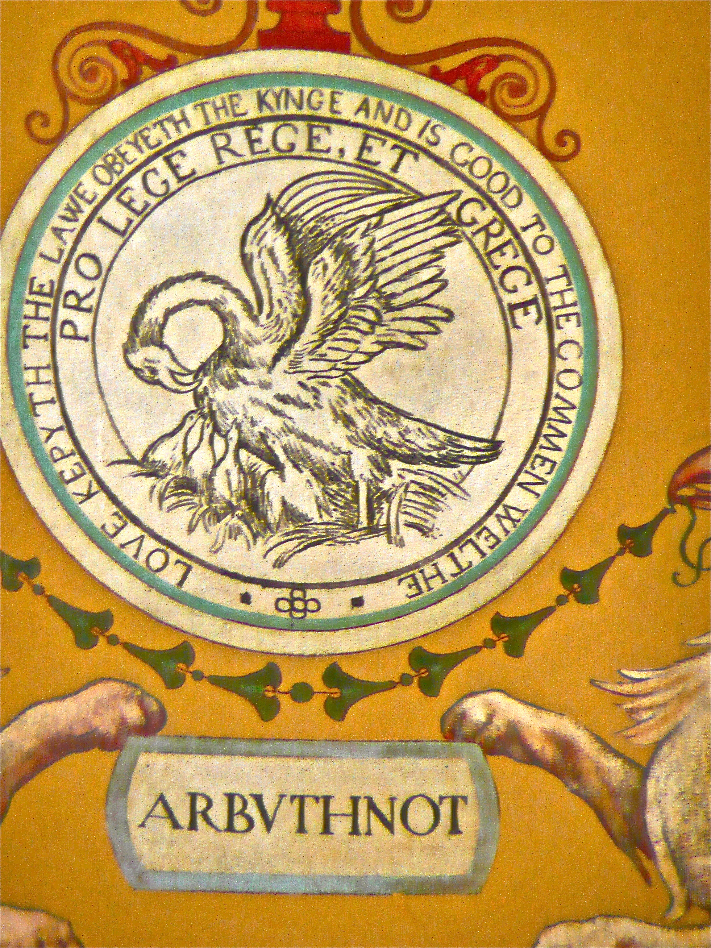 Alexander Arbuthnot. From ceiling of the Great Hall of the Library of Congress, painted in 1890. Photo taken at the LOC 2012 Flickr Photo Meetup